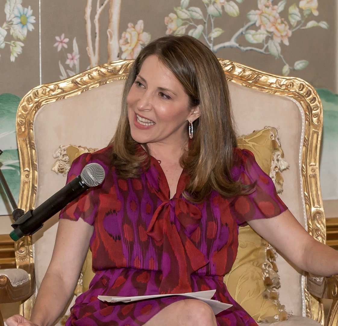 Journalist Jessica Yellin in Los Angeles in September 2016